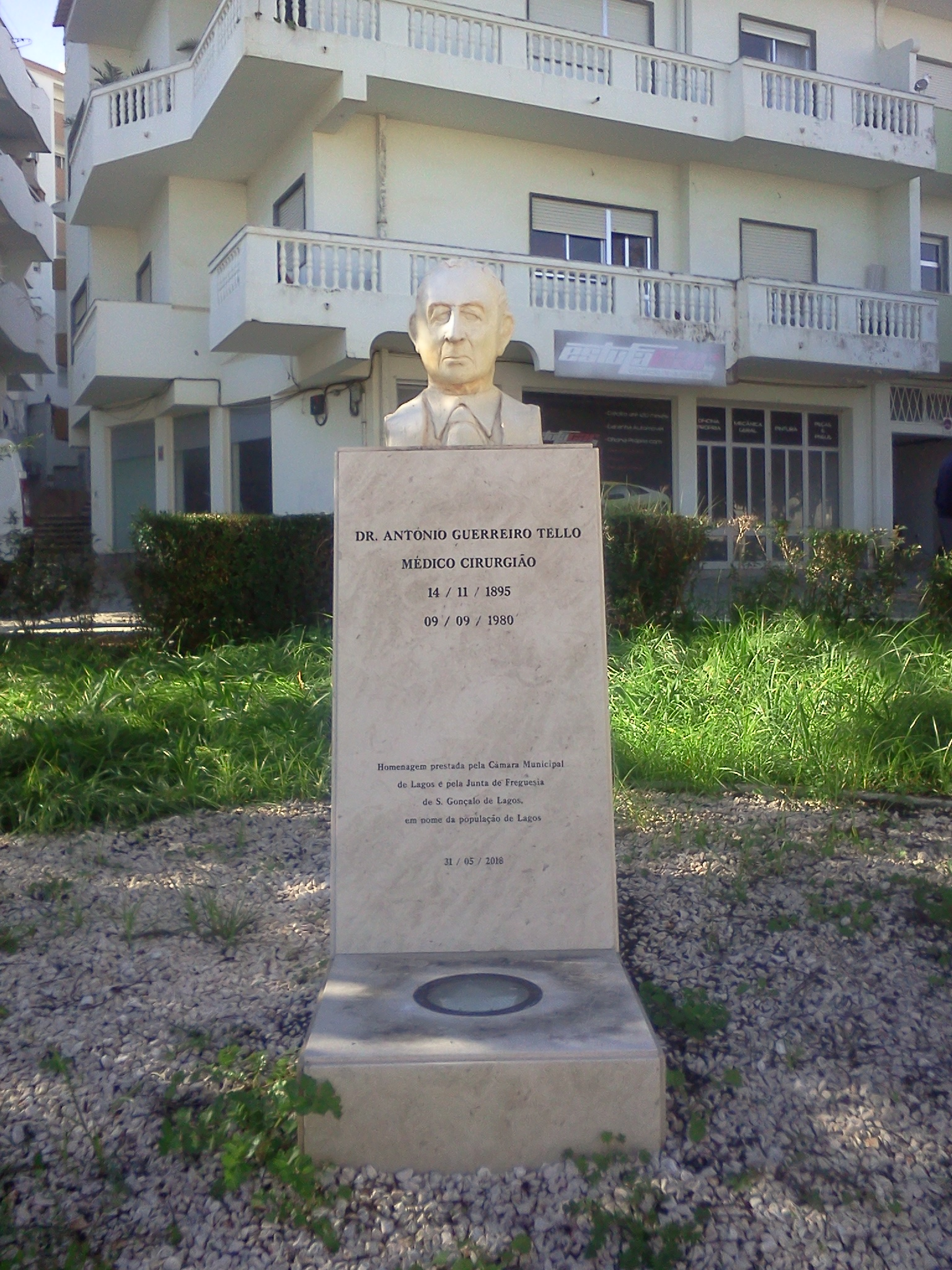 Bust of doctor António Guerreiro Tello, in the city of Lagos, in Portugal.